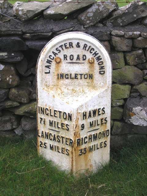 A cast iron milestone dating from about 1825 on what was the Lancaster to Richmond turnpike road but is now the B6255.